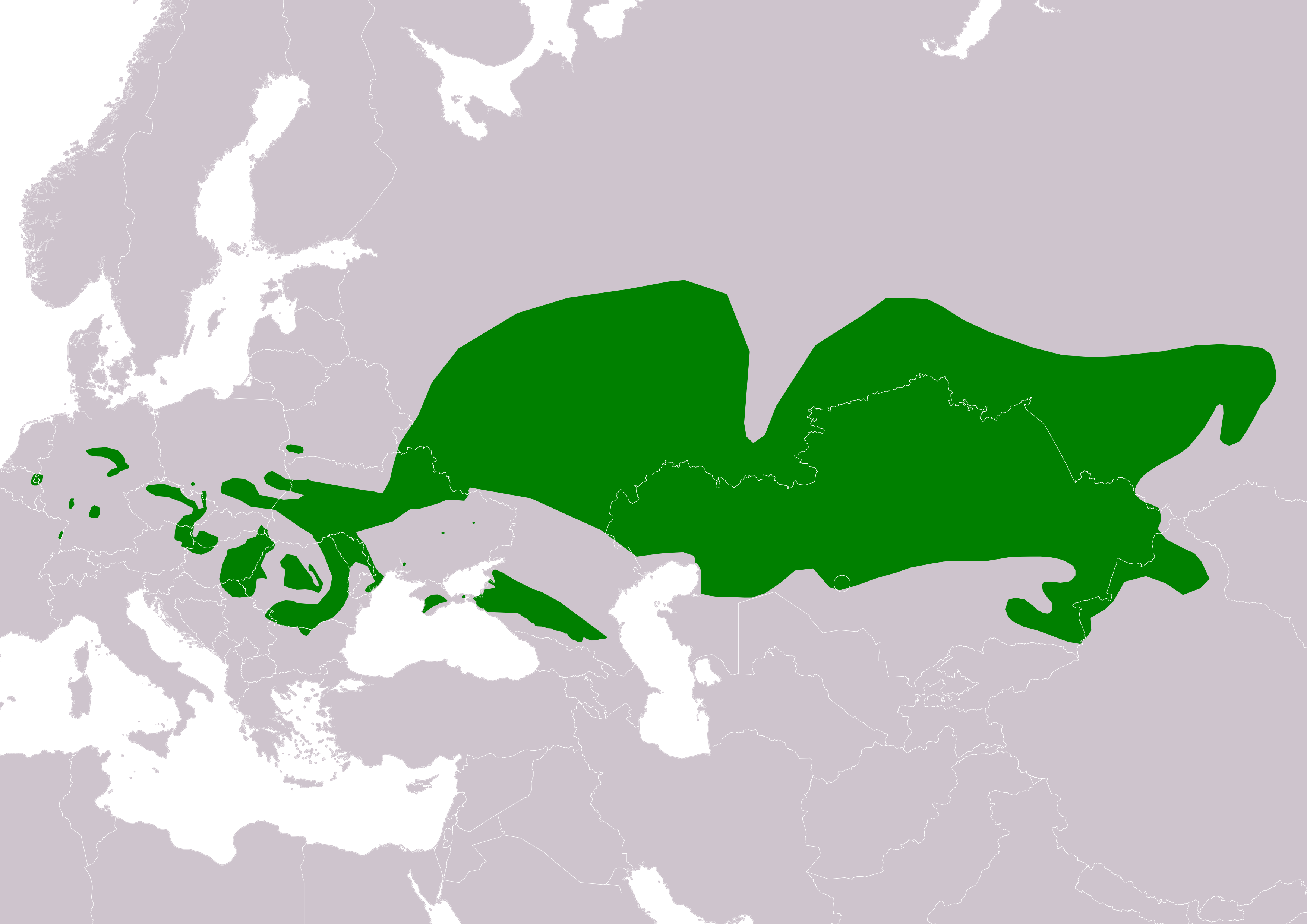 Distribution map of common hamster (Cricetus cricetus) according to IUCN version 2020.2 (Compiled by: IUCN SSC Small Mammal Specialist Group 2020); key: Legend: Extant, resident (#008000)